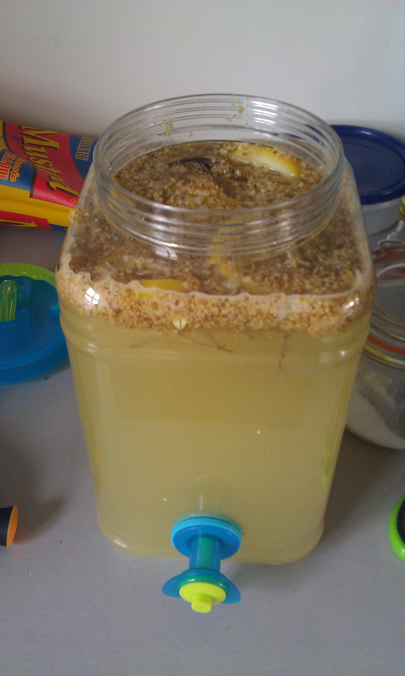 Sambucus (elderberry), fermented juice, traditional in Romania